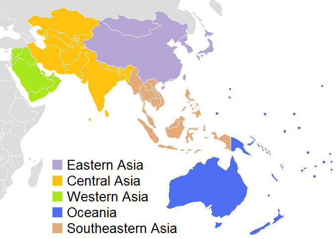 Asian Volleyball Confederation Zonal Associations map